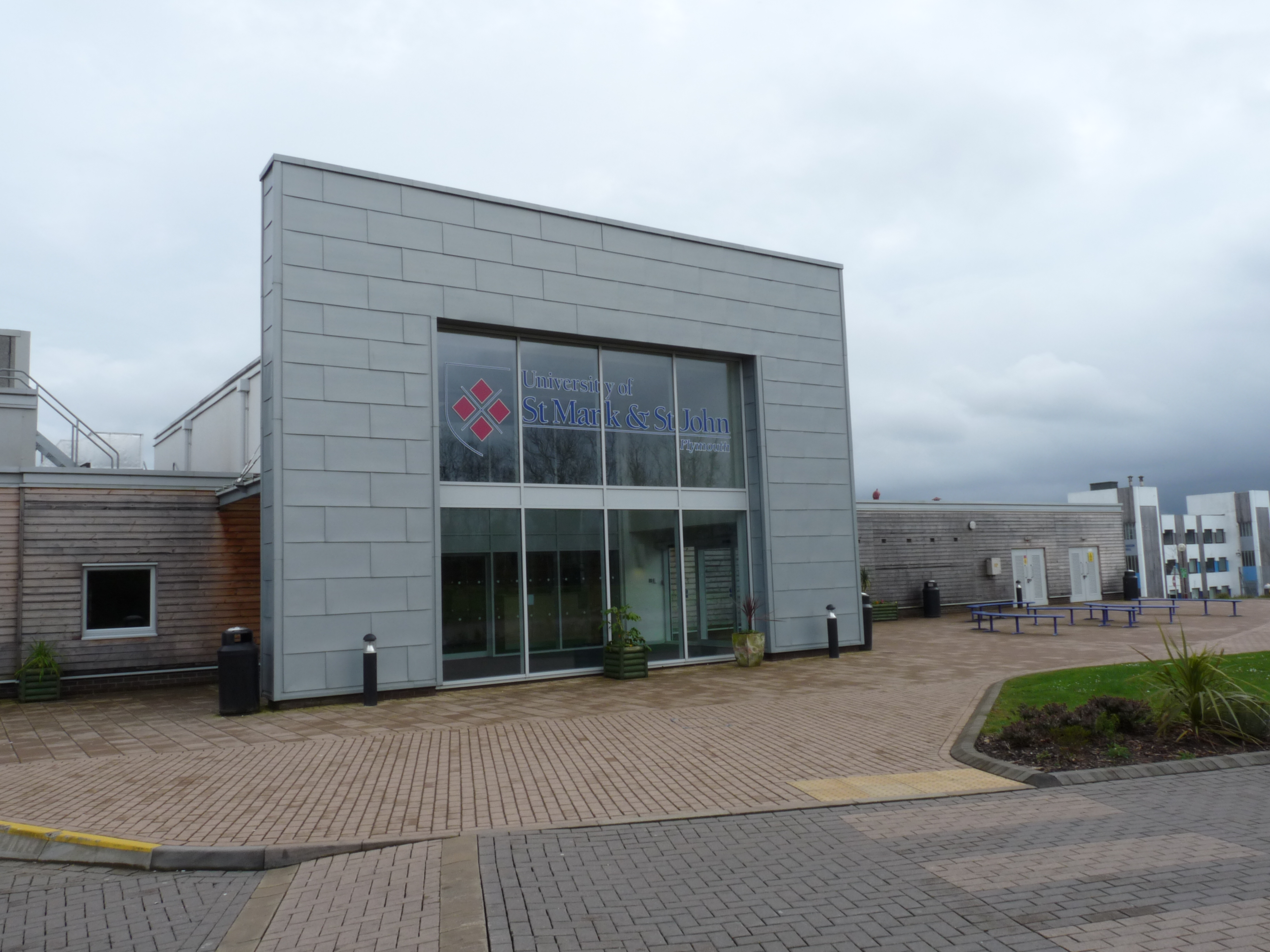 The main entrance to the Derriford campus of the University of St Mark and St John.